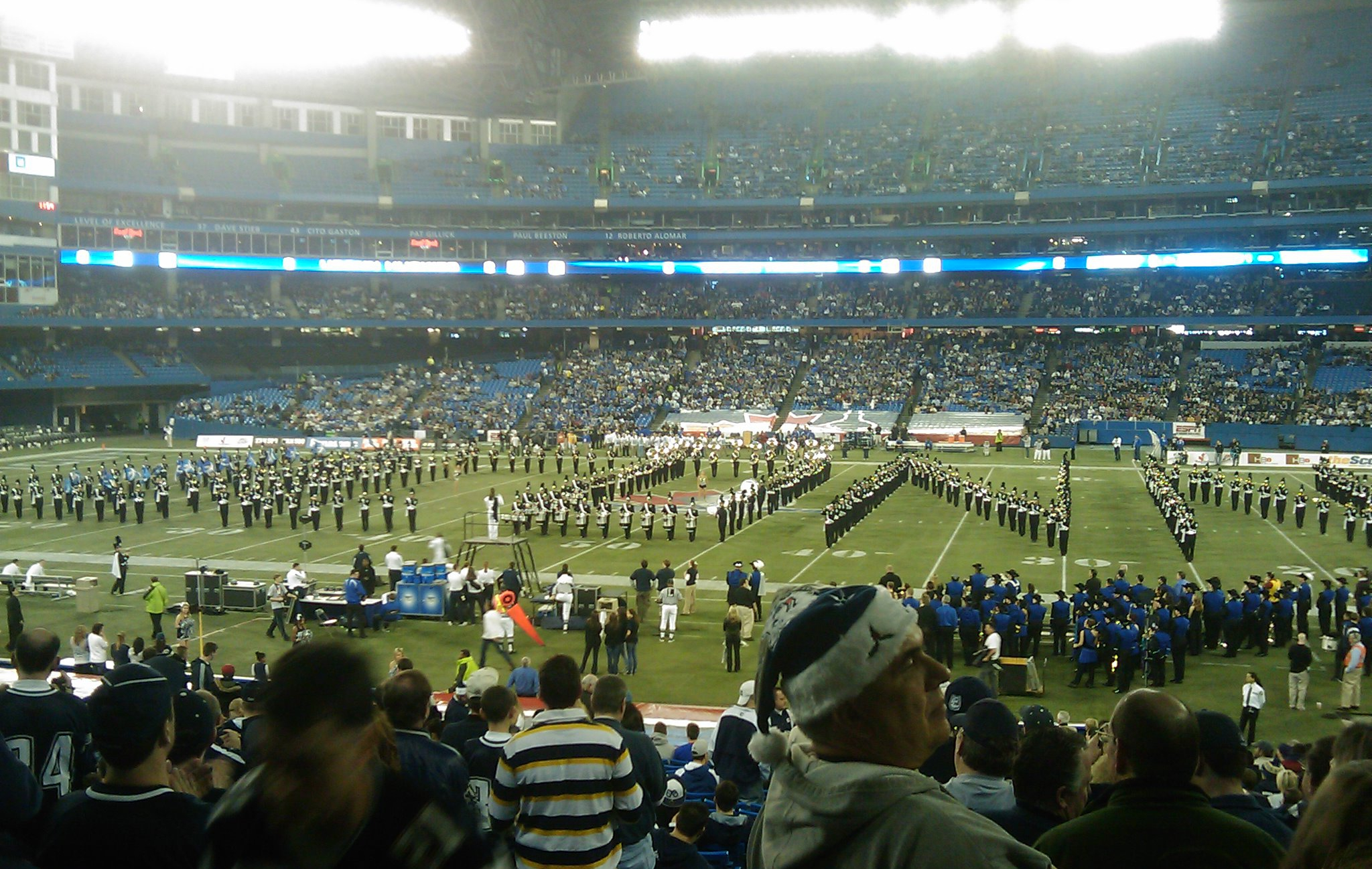 The University of Connecticut marching band performs prior to the kickoff of the en:2009 International Bowl.